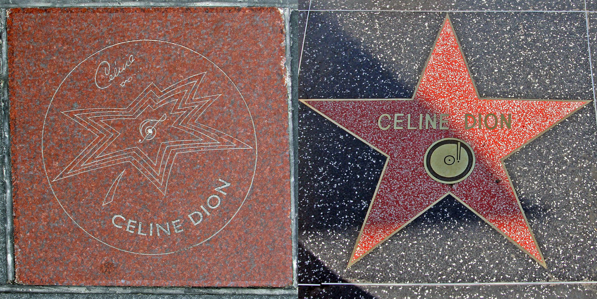 On the left is Dion's star on Canada's Walk of Fame; on the right is her star on the Hollywood Walk of Fame.